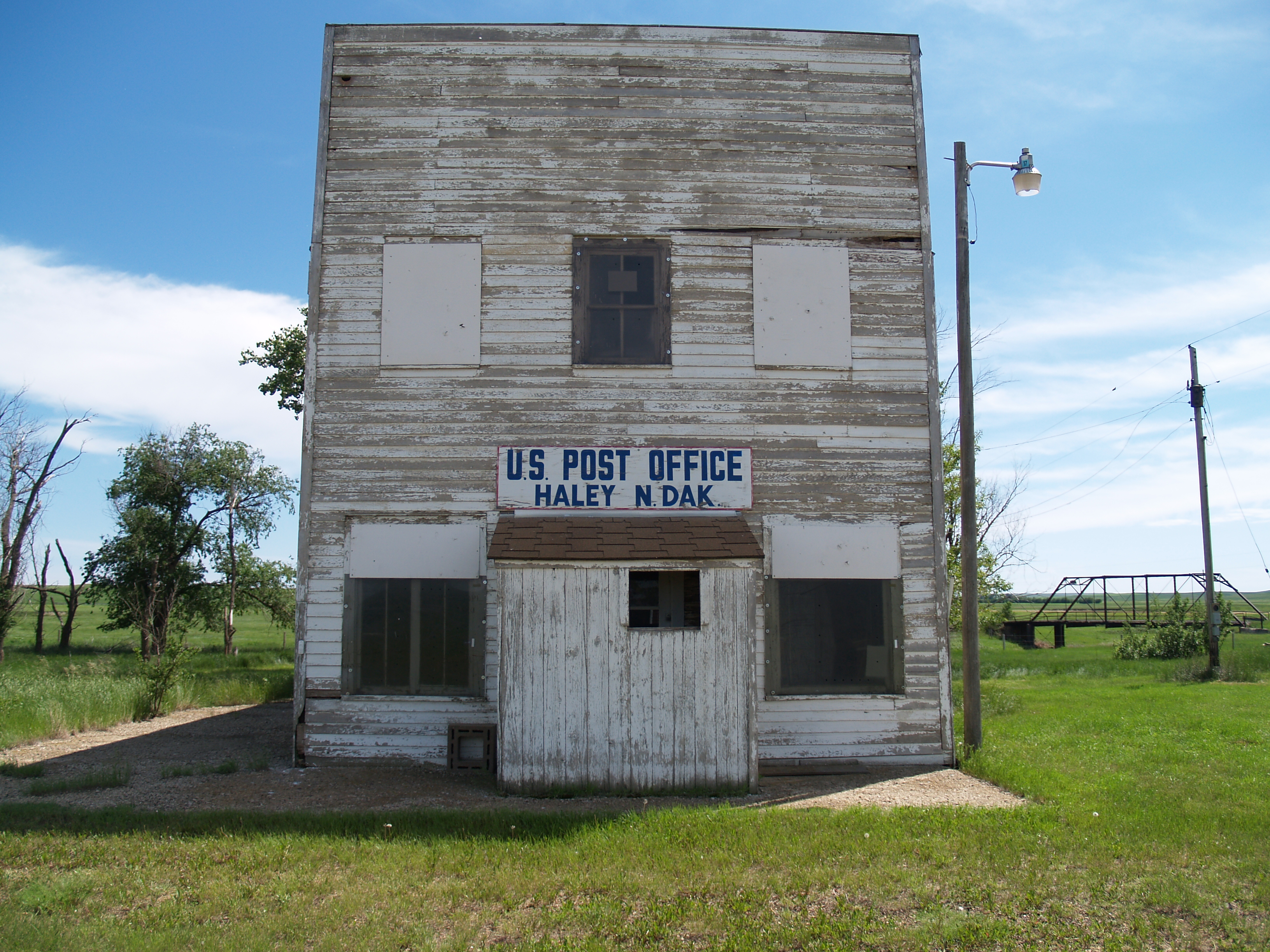 Old Post office in Haley, North Dakota. From .